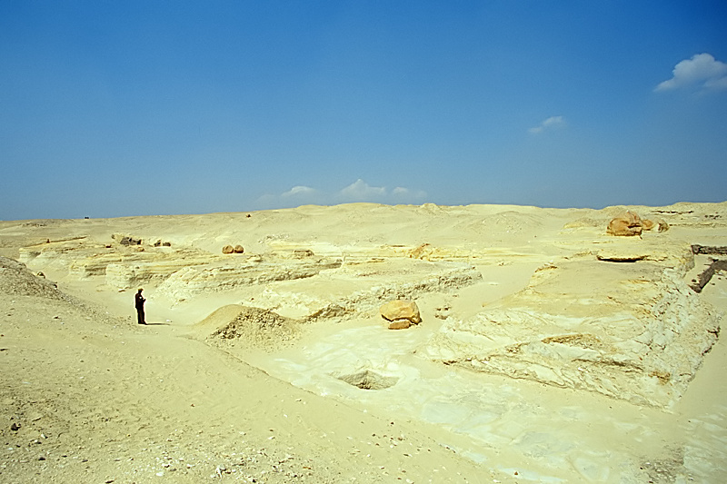 Mastabas of princesses north of the pyramid of Sesostris II, el-Lahun, el-Fayyum, Egypt